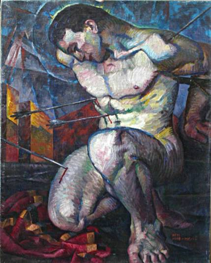 Unknown